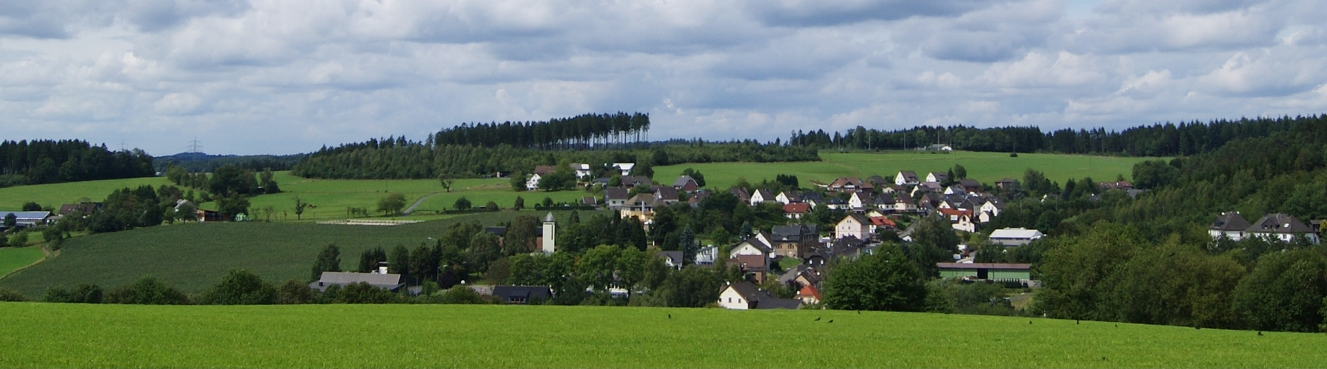 Katzwinkel (Sieg), Germany. Seen from south (taken at Sieg-high route near Kalteich).